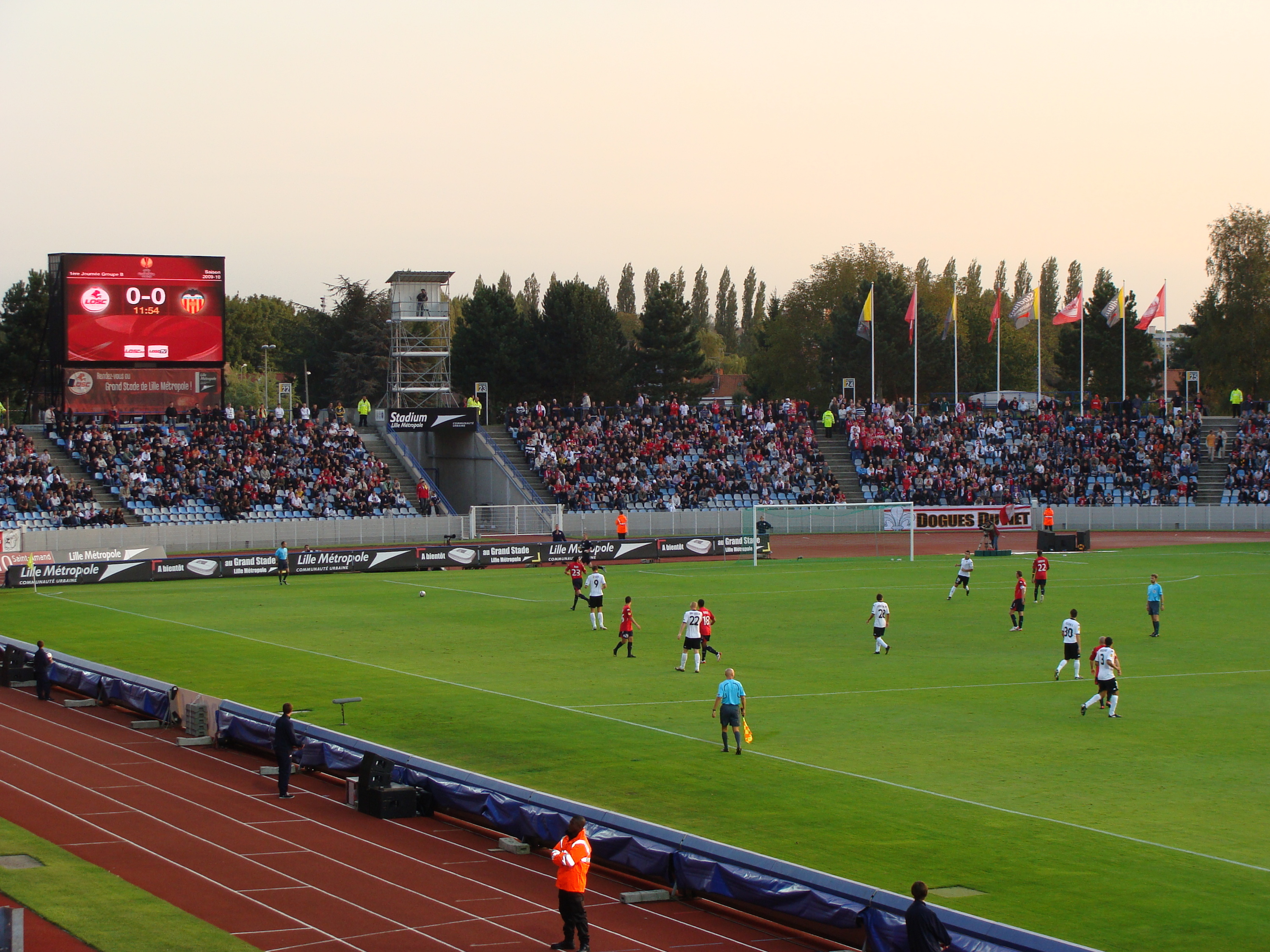 LOSC Lille - Valencia CF, Ligue Europa 2009